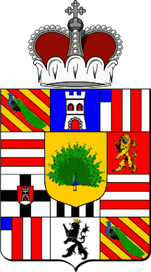 coat of arms